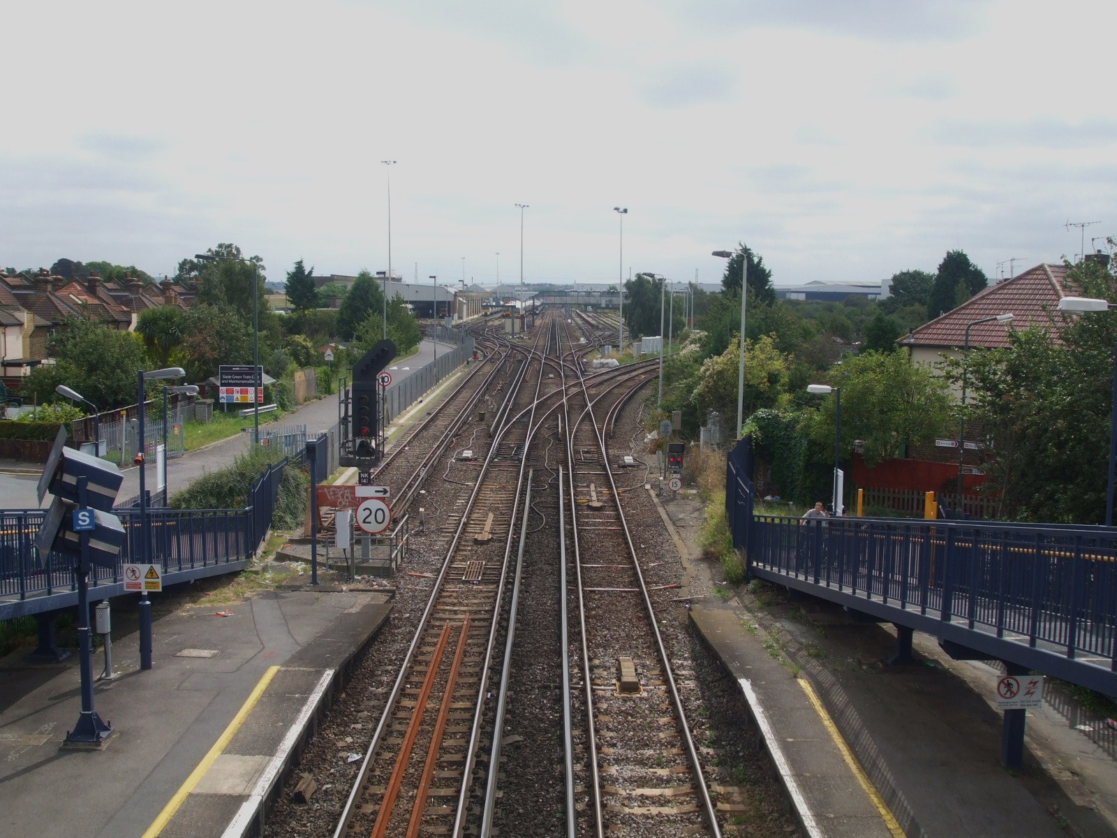 Slade Green station looking east towards Dartford from the footbridge. Slade Green depot visible ahead. On the right is the seldom used curve to Barnehurst. A more frequently used curve to Crayford lies beyond the depot.